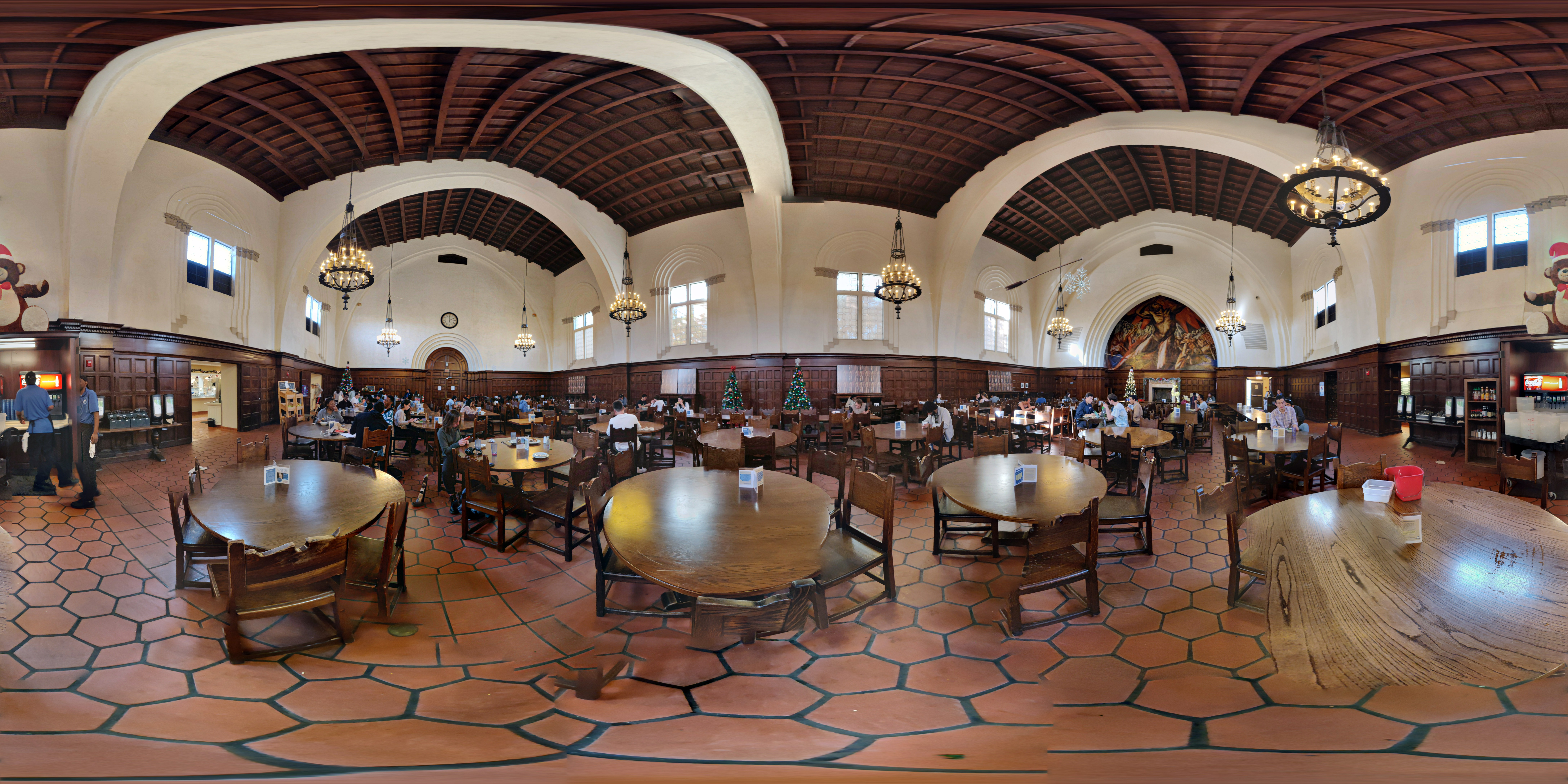 A 360-degree view of the refectory at Frary Dining Hall at Pomona College. The mural Prometheus can be seen at the north end of the hall.